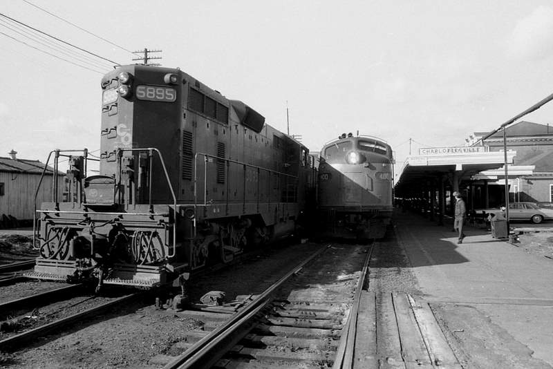 Amtrak's eastbound James Whitcomb Riley (the George Washington, if before May 19) at Main Street Station in Charlottesville, Virginia in 1974. A C&O GP7 is at left. The original author on Flickr did not include a description. However, this is clearly Main Street Station in Charlottesville, which Amtrak used in the 1970s while the Southern Railway used Union Station. The livery and number help identify the right-hand locomotive as Amtrak #400, an EMD E9A. The only train operated by Amtrak in the mid-1970s at Charlottesville was the James Whitcomb Riley (of which the eastbound section was known as the George Washington until It was common practice for C&O power to haul the Newport News section of the Riley, and that section joined the Washington section in Charlottesville. Identification of the car behind the GP7 is difficult; if it is a passenger car then this photograph depicts such a switching operation.